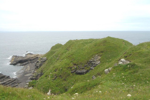 Brough Castle The site of Brough Castle at Langypo. Nothing now remains of the castle.